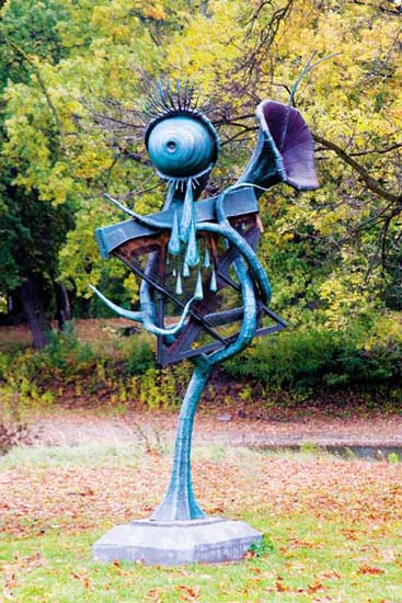 Lubo Kristek: Tree of the Wind Harp, 1992, painted iron, 460 cm